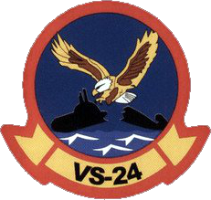 Insignia of the U.S. Navy Anti-Submarine Squadron 24 (VS-24) "Duty Cats", later Sea Control Squadron 24. The insignia was approved on 7 December 1960.